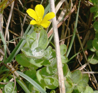 Hypericum elodes in Sheep's Head, Ireland (West Cork)